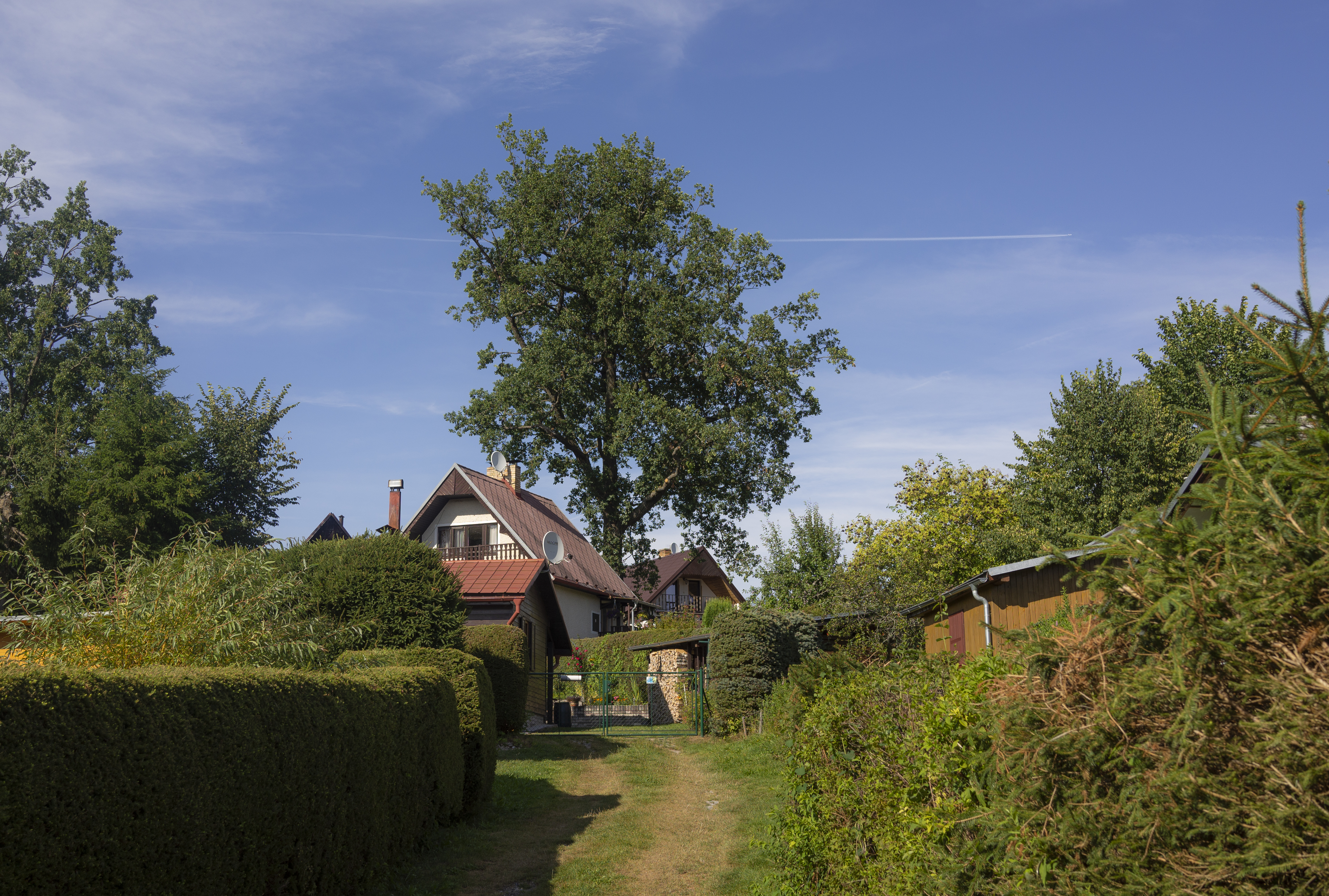 Memorable oak tree in Radslav, Czech Republic